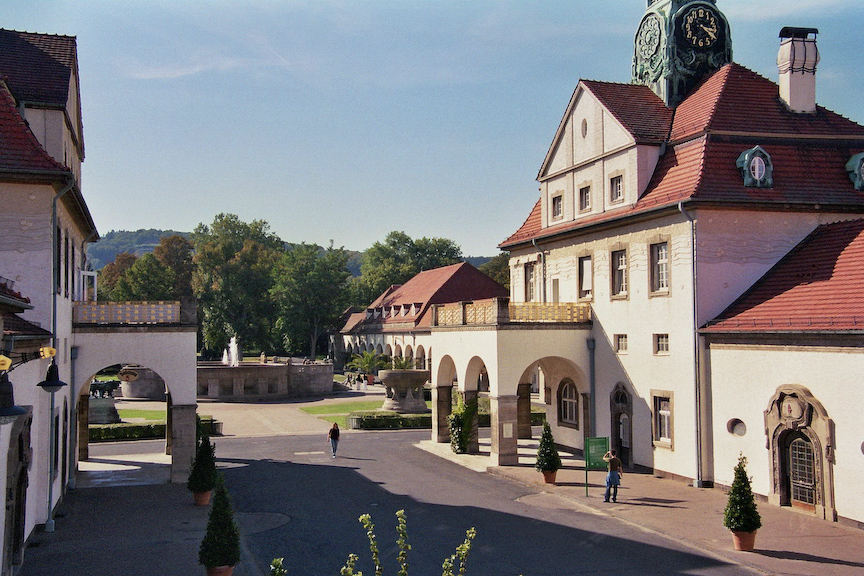 The Sprudelhof (spa) in Bad Nauheim (Hessen, Germany)